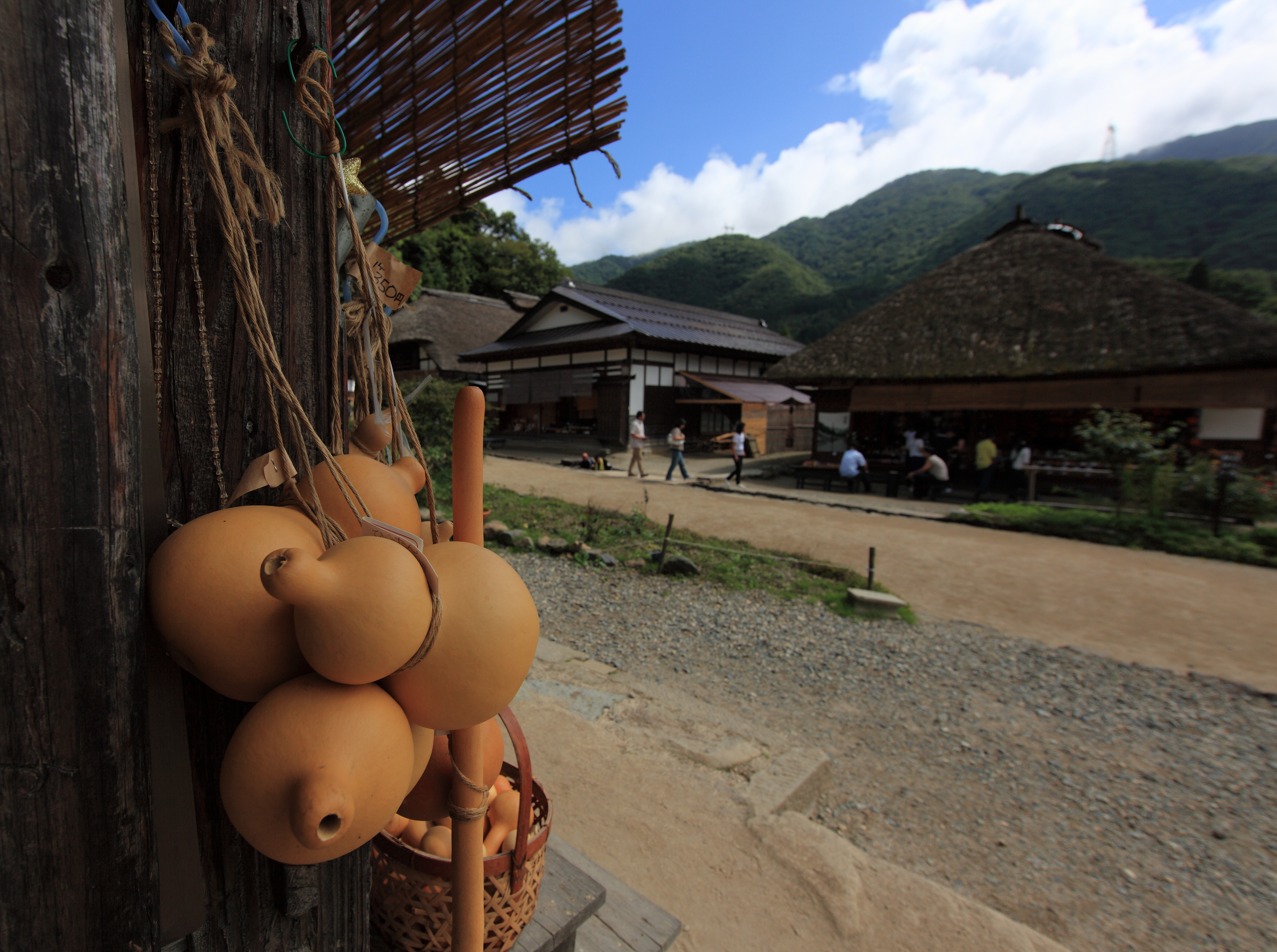 Oouchijuku , Shimogou-machi(town) Minami-Aidsu-gun(county) Fukushima-ken(Prefecture), Japan 福島県南会津郡(ふくしまけんみなみあいづぐん)下郷町(しもごうまち)大内宿(おおうちじゅく)